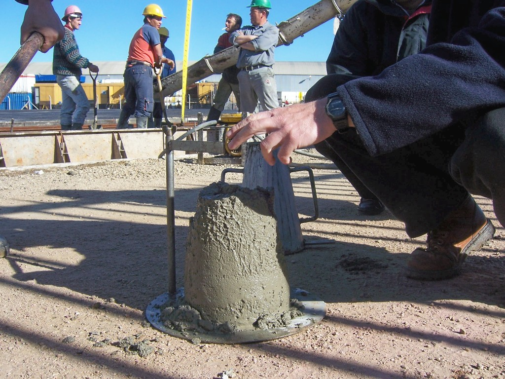 Measuring the slump of the concrete at the end of the slump test. In this case, the value obtained was 7 centimeters.